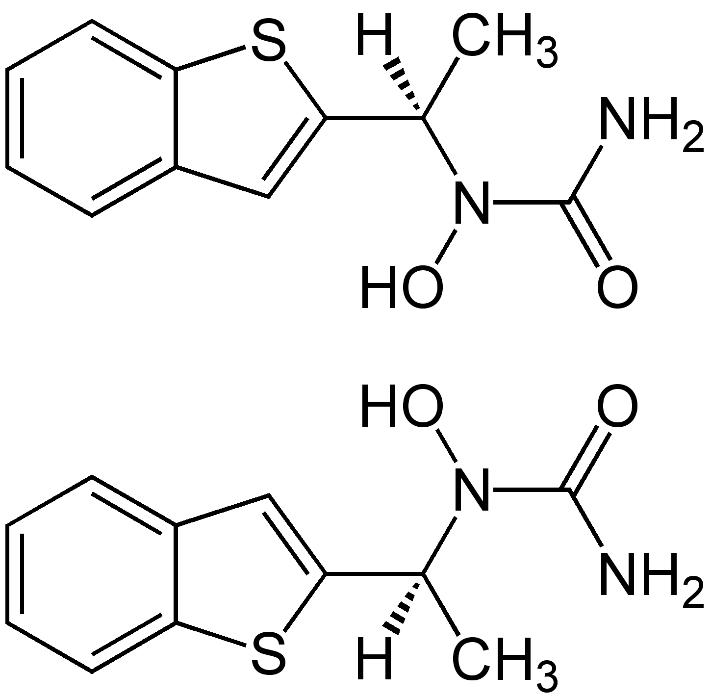 (±)-Zileuton_Enantiomers_Structural_Formulae